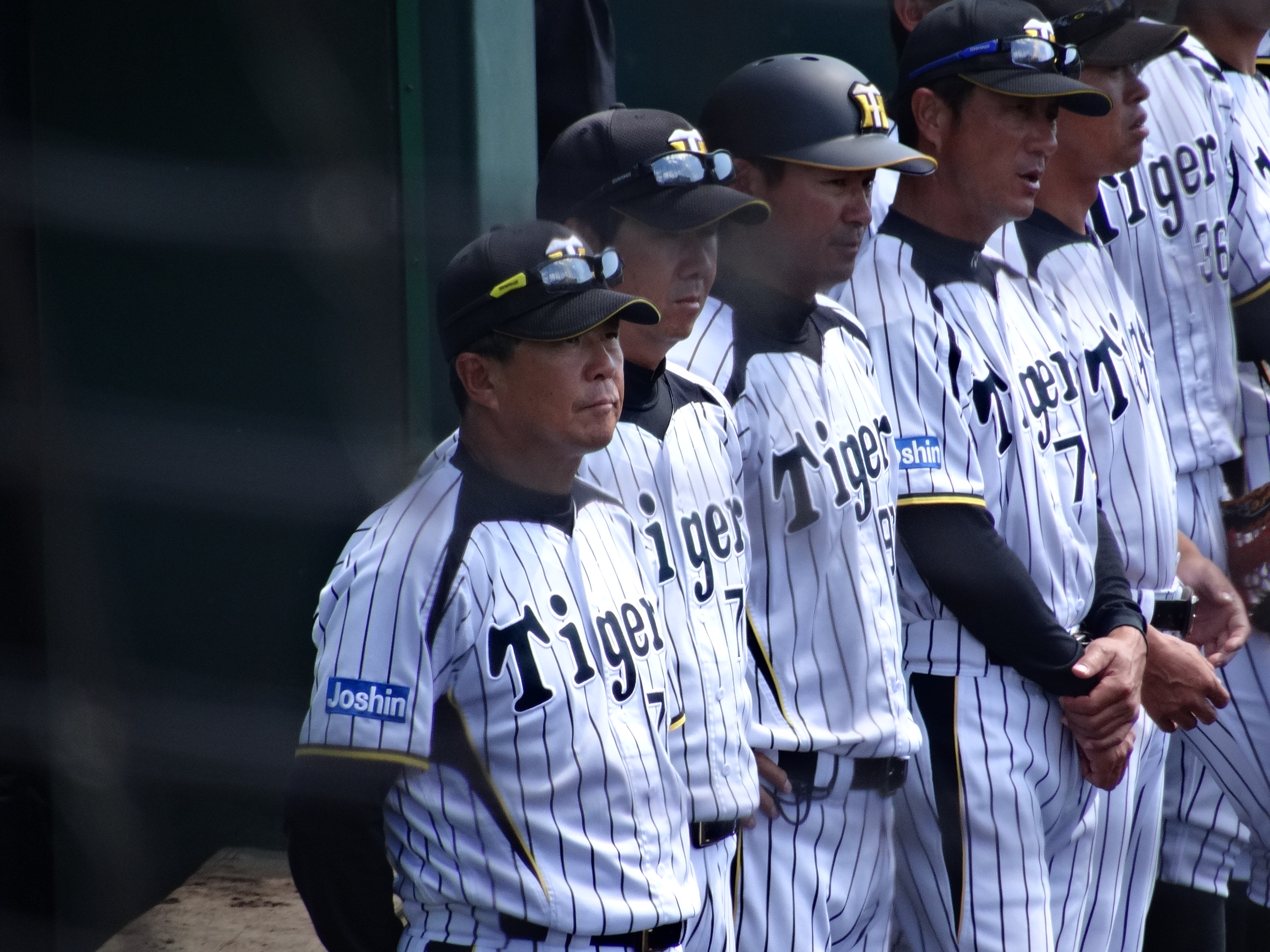 Katsuo Hirata, manager of the Hanshin Tigers' farm team, at Hanshin Naruohama Baseball Ground.